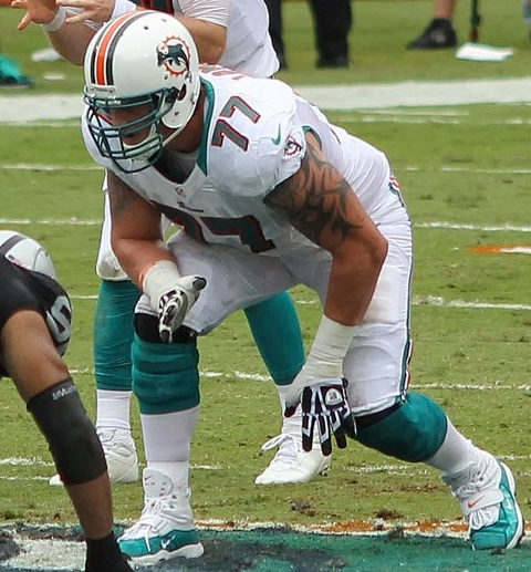 Quarterback Ryan Tannehill of the Miami Dolphins